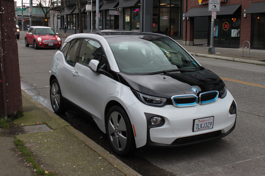 BMW Carshare vehicle in Capitol Hill